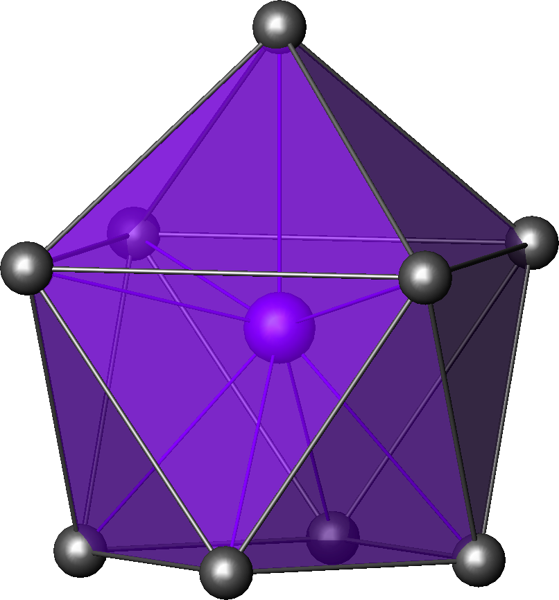 Monocapped square antiprismatic coordination polyhedron